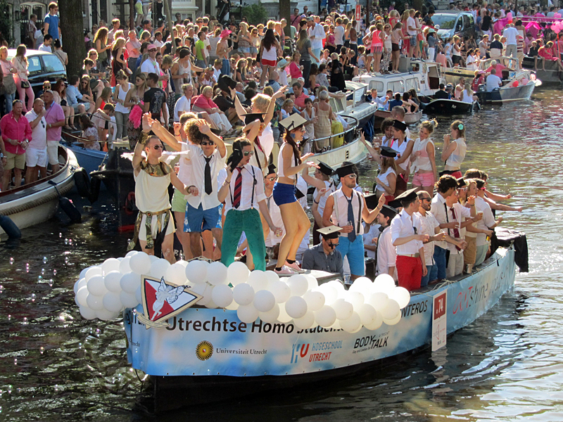 Boat of the LGBT student association UHSV Anteros, participating in the Canal Parade of the Amsterdam Gay Pride of 2013